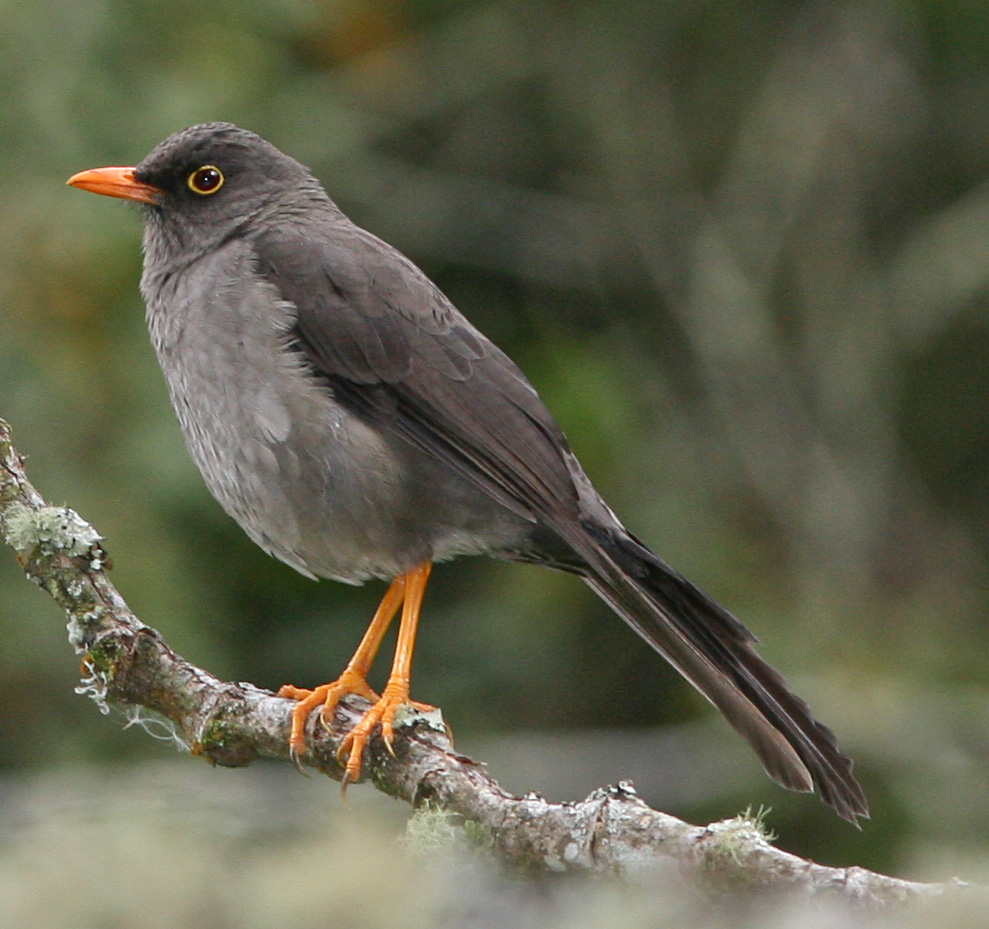 Great Thrush in Parque Nacional Sierra Nevada in Venezuela